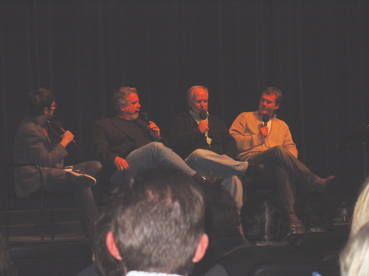 Kevin Murphy, Bill Corbett, and Michael Nelson from their live Rifftrax show at the San Rafael theater. (Dark & underexposed, but the best I could do from so far away).